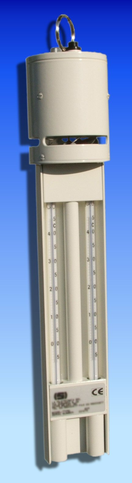 Air forced psychrometer